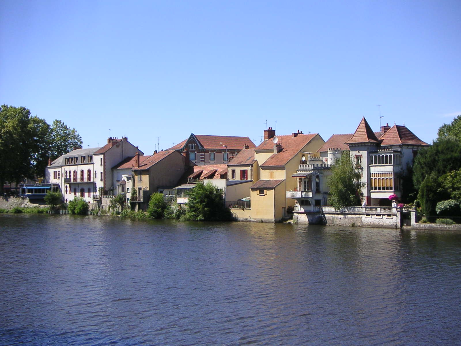 River Cher in Montlucon